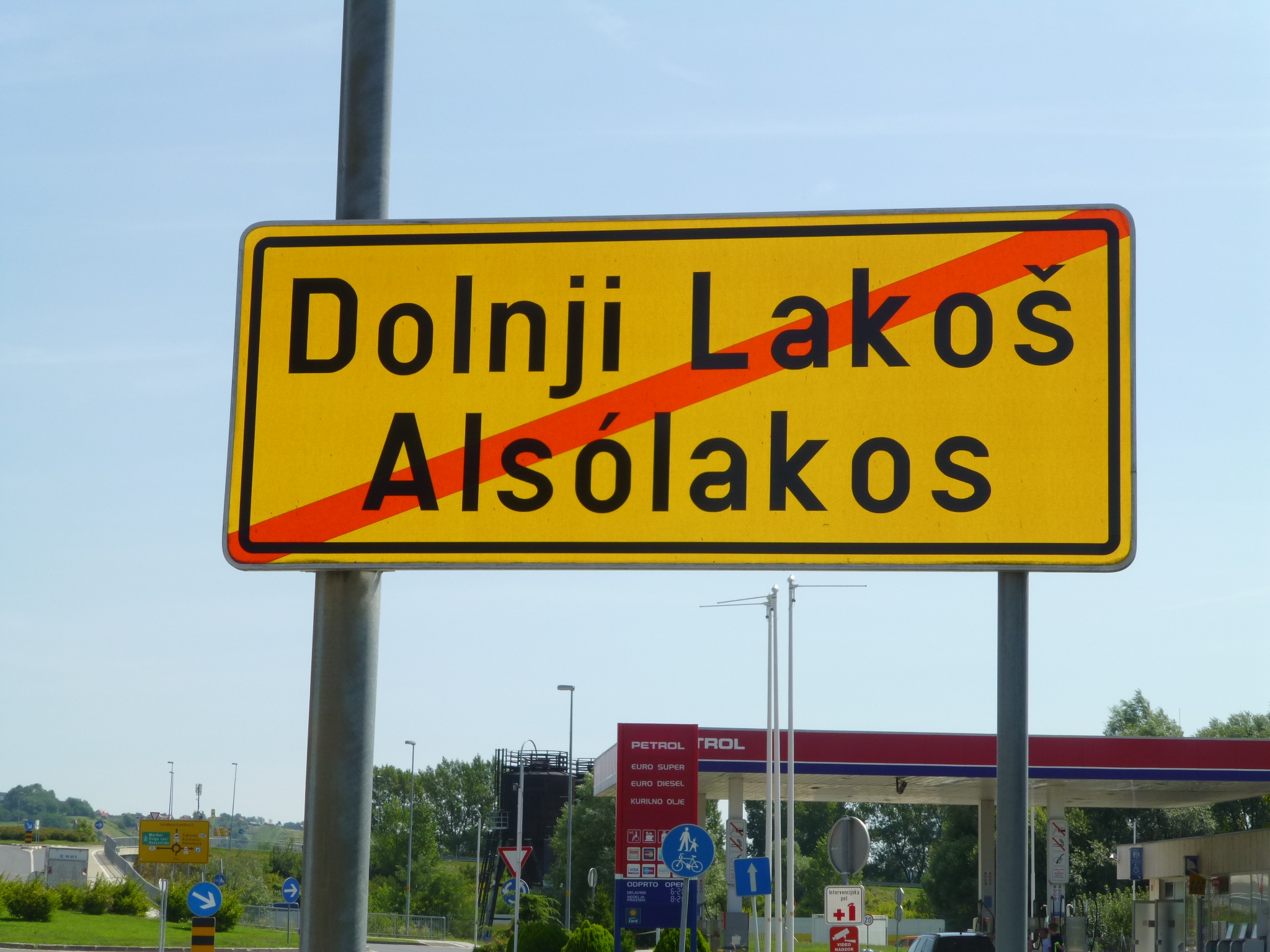 Dolnji Lakoš - Alsolakos, bilingual plaque on the road to Croatia.